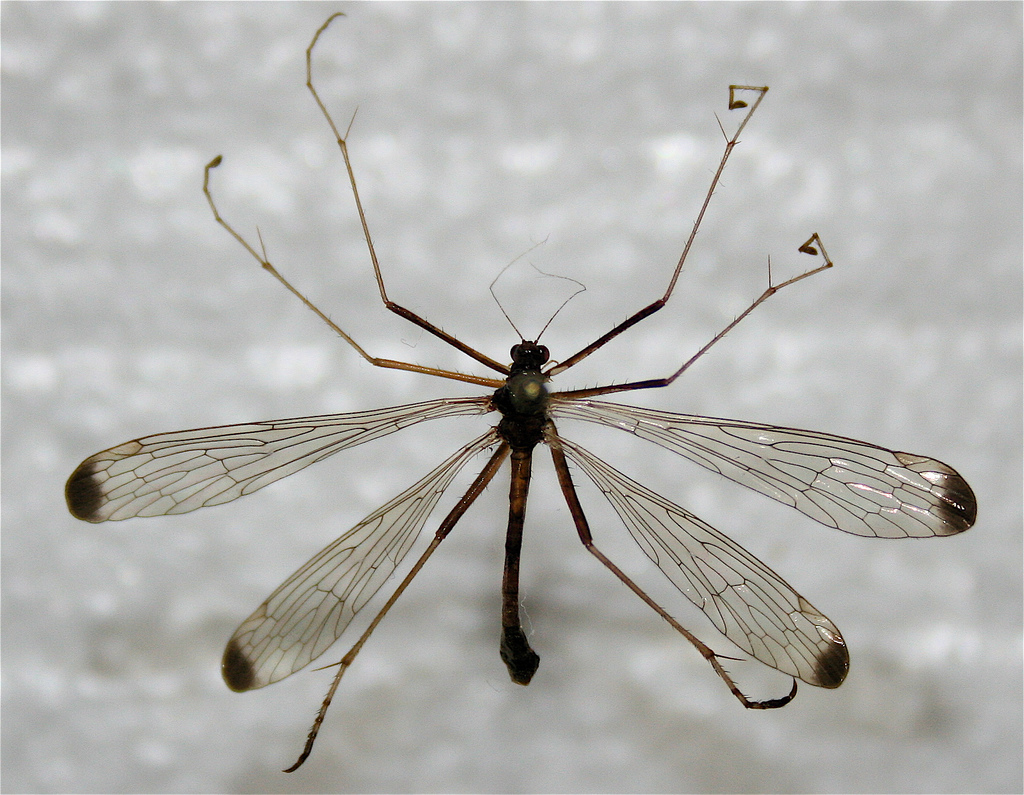 Hylobittacus apicalis caught at Fort Custer Recreation Area, MI, USA.